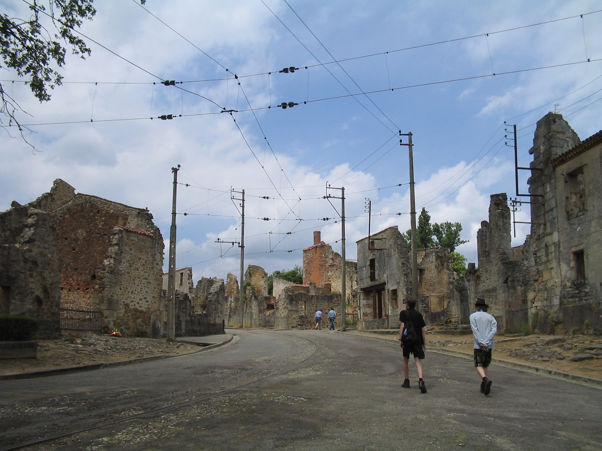 The main street of Oradour-sur Glane. This is a photograph which I took during a visit to the French village Oradour-sur-Glane on June 11 2004, exactly 60 years after its destruction by the German paramilitary Waffen-SS during World War II. The two persons on the right are friends of mine.